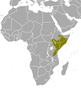 Range map of Tragelaphus imberbis according to IUCN SSC Antelope Specialist Group 2008. Tragelaphus imberbis. In: IUCN 2011. IUCN Red List of Threatened Species. Version 2011.2. . Downloaded on 24 May 2012.